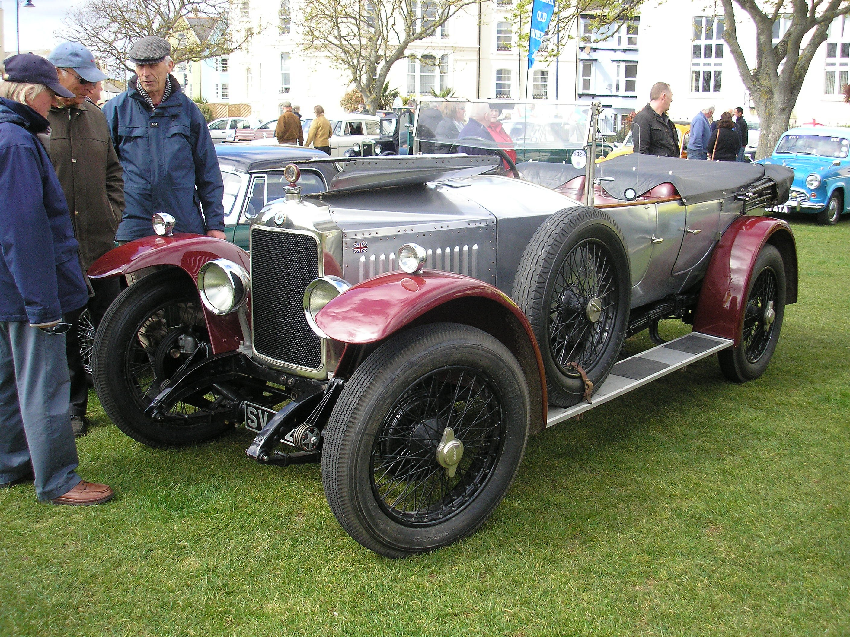 The last of this group, a superb older Vauxhall convertible, SV8215, to be seen at the Teignmouth St. George's day celebratory classic car event on 22/04/2012. (DVLA) manufactured 1923, 2300 cc Camera: Olympus FE-120 6.0 Digital.